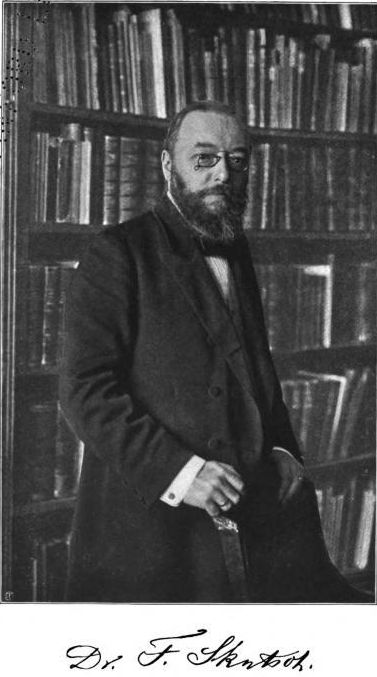 Franz Skutsch (1865–1912), German classical scholar